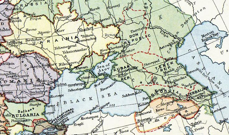 Map of Europe political divisions in 1919 (after the treaties of Brest-Litovsk and Versailles and before the treaties of Trianon, Riga, Kars and the establishment of Soviet Union and the republics of Ireland and Turkey) published by London Geographical Institute. This uploaded map is a photoshopped version of the original image located at . According to the site, there are no copyrights to this map.